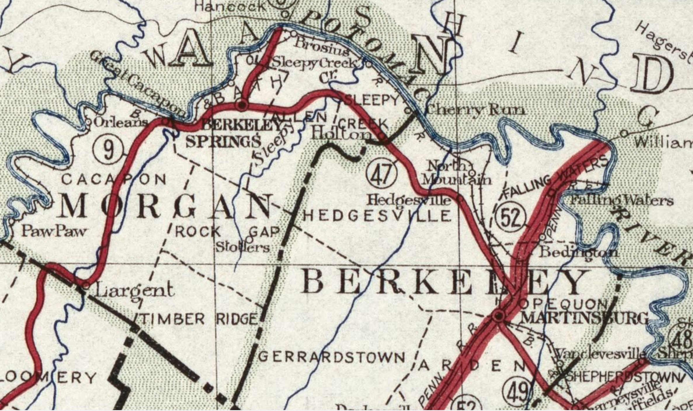 Available also through the Library of Congress Web site as a raster image.